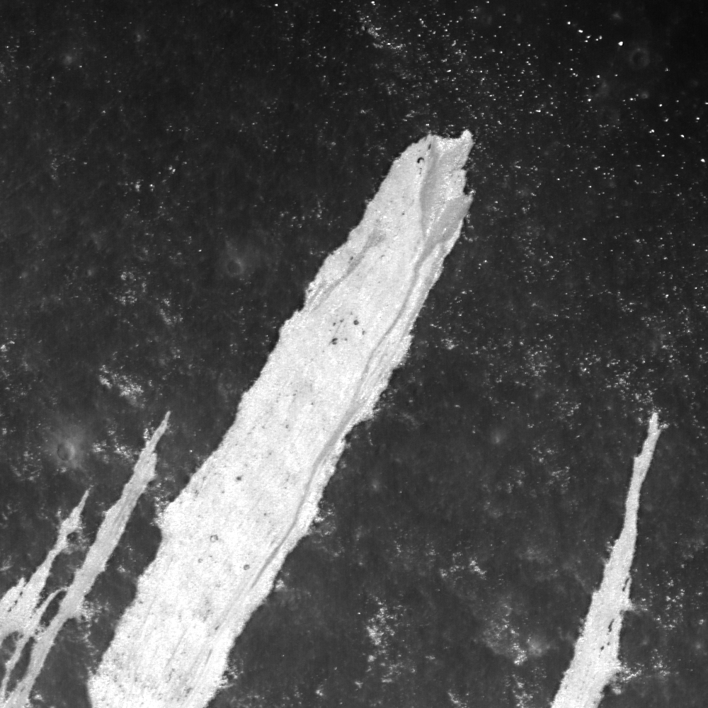 A debris flow in Couder crater shows signs of geologically recent activity. Note the two distinct units within the deposit (white and grey). Downslope is to the upper right and image width is 1000 m, LROC NAC M1101817103RE [NASA/GSFC/Arizona State University].